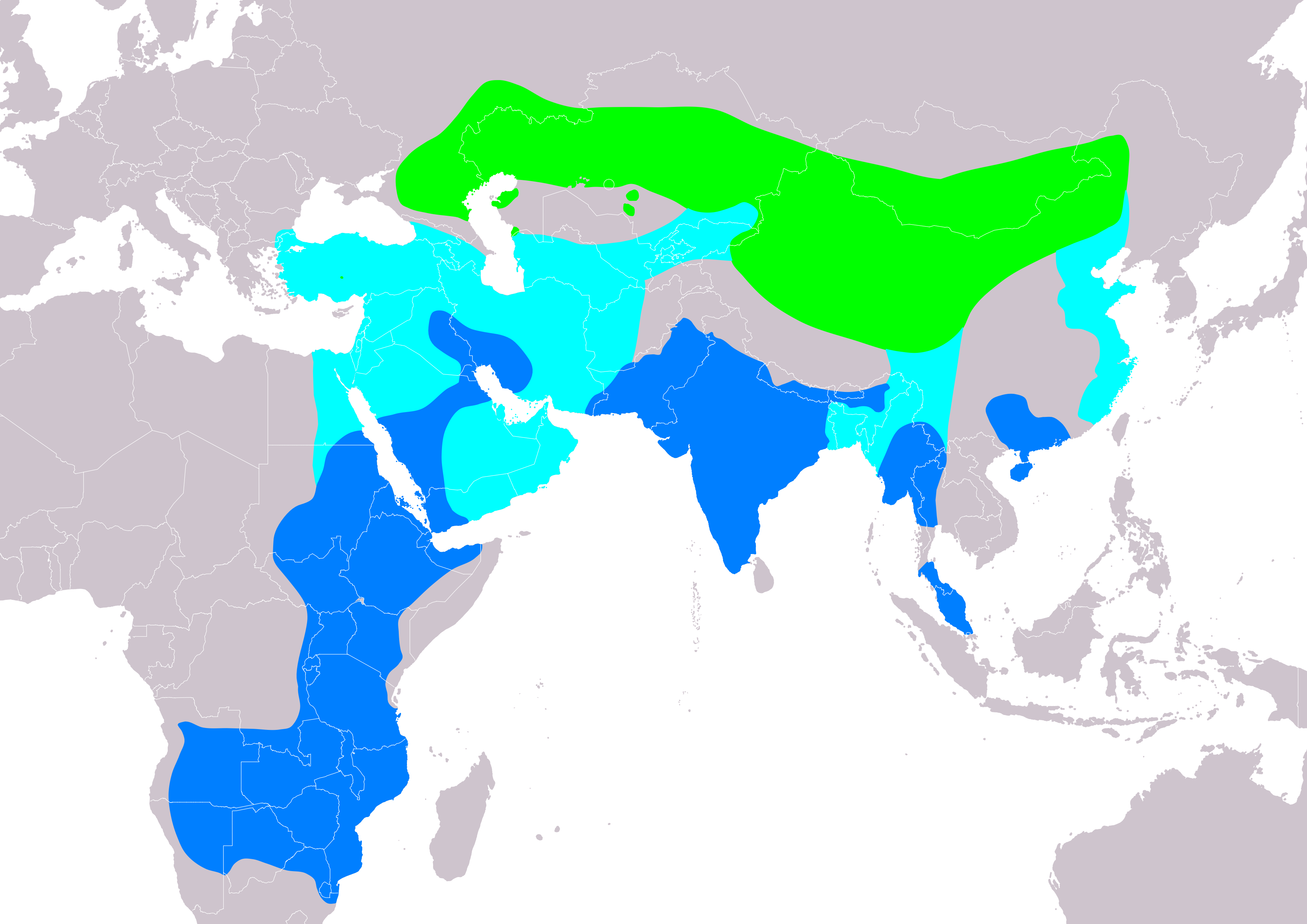 The distribution map of steppe eagle (Aquila nipalensis) according to IUCN version 2019.1; key: Legend: Extant, breeding (#00FF00), Extant, passage (#00FFFF), Extant, non-breeding (#007FFF)